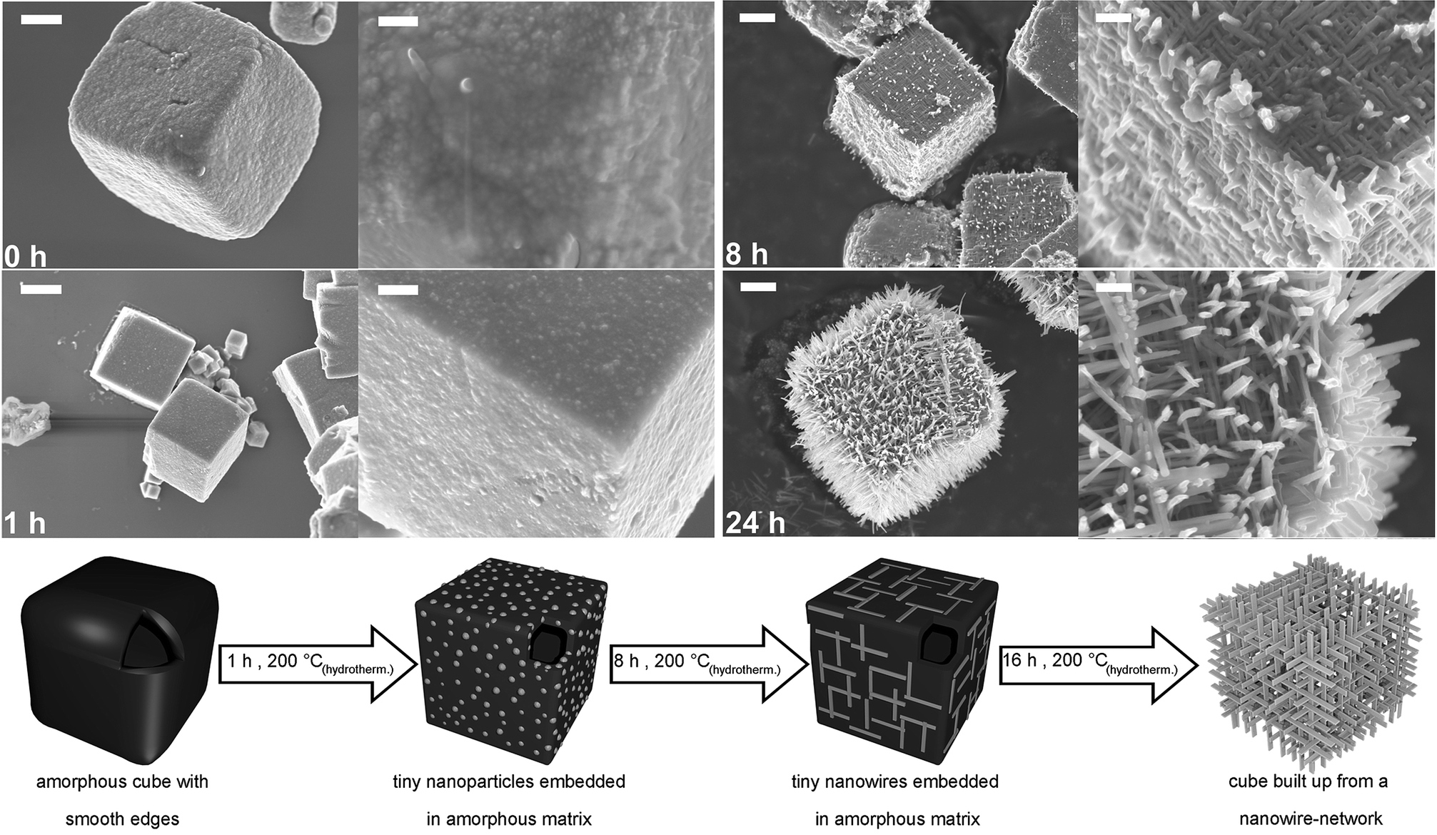 SEM images of Nb3O7(OH) cube morphologies obtained for different times of hydrothermal treatment (scale bar 1 μm). The development of nanowires can be observed, as summarized in a model below.